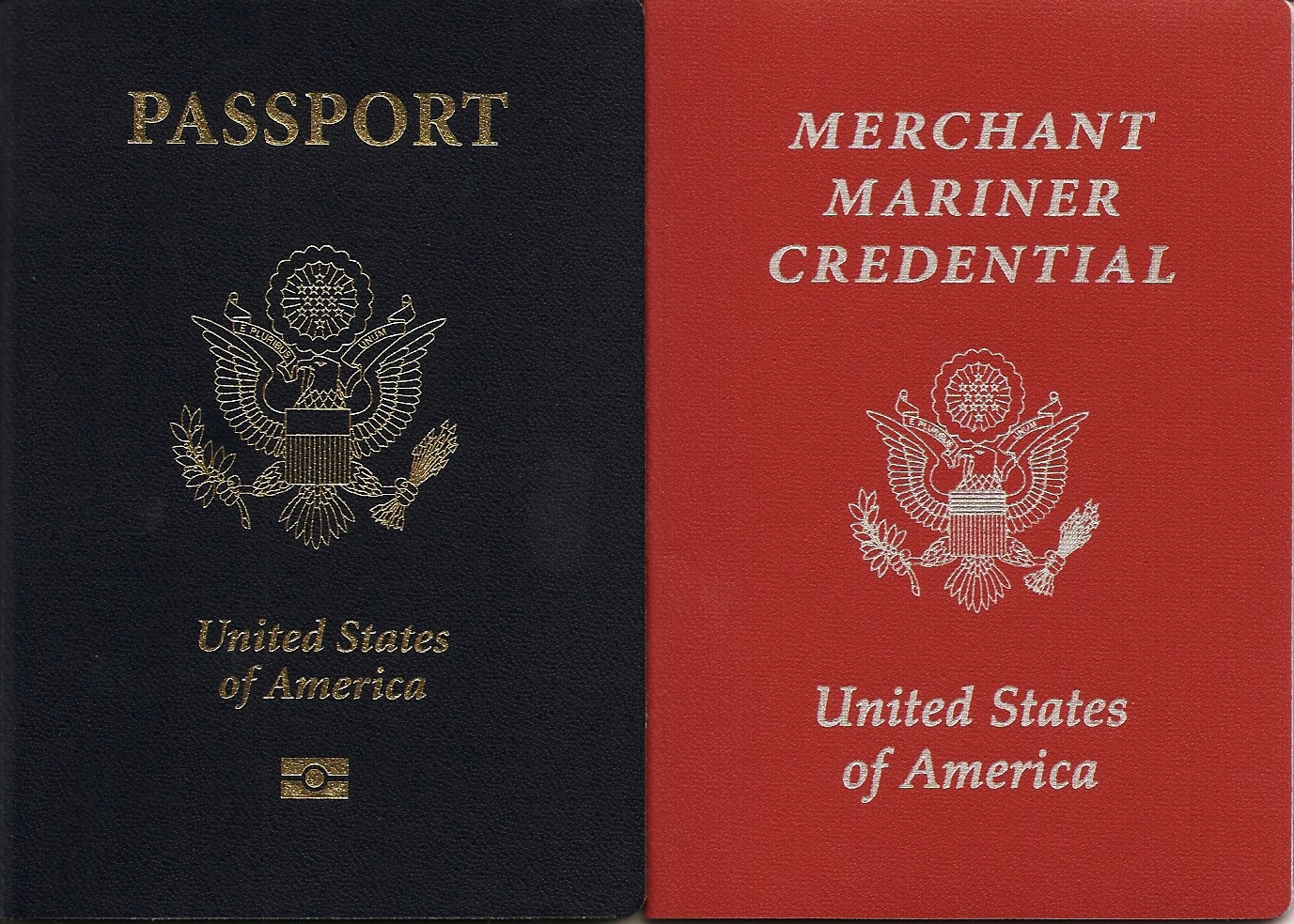 Scan of US Passport and MMC.